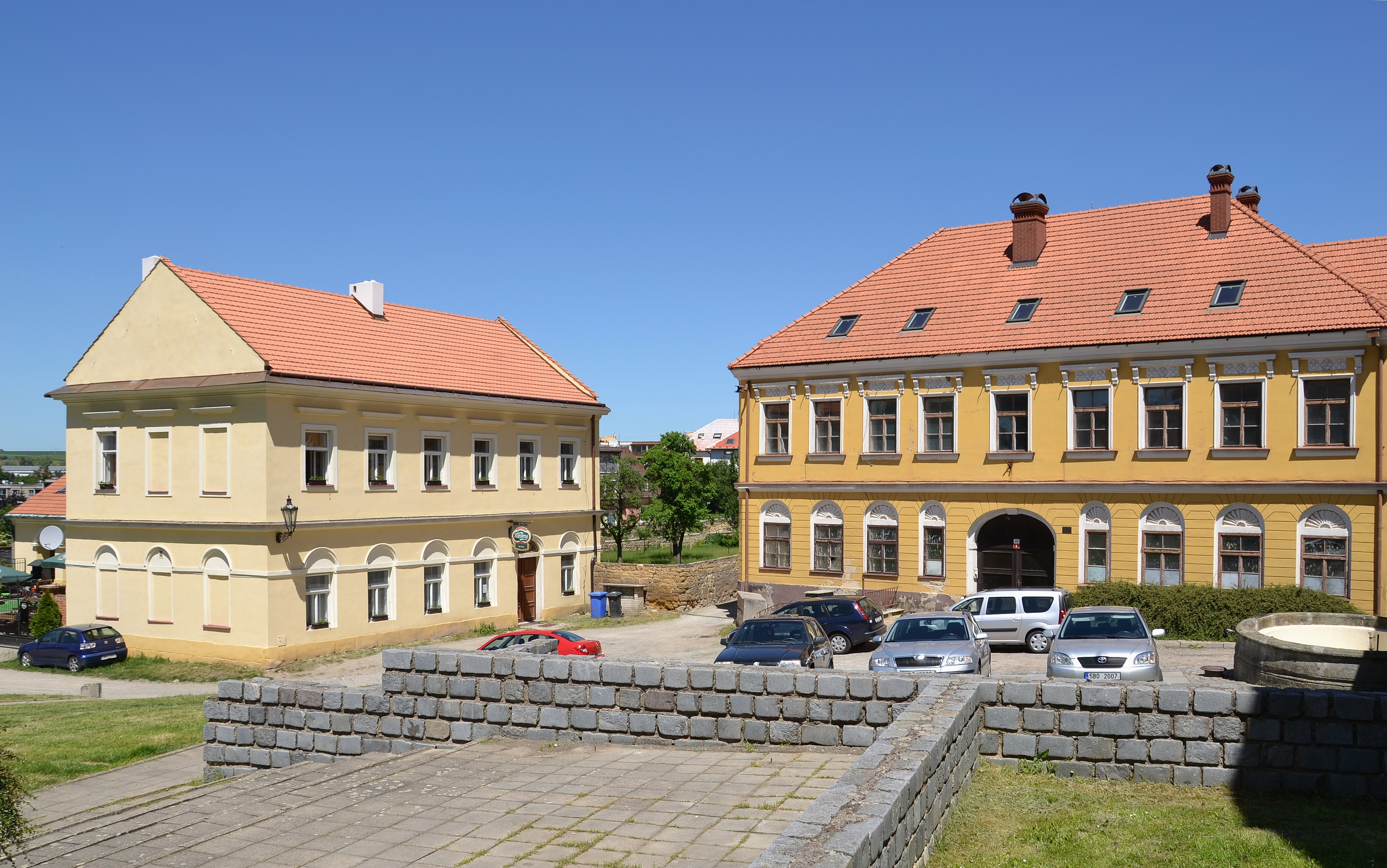 Boskovice (Boskowitz), Moravia - jewish community